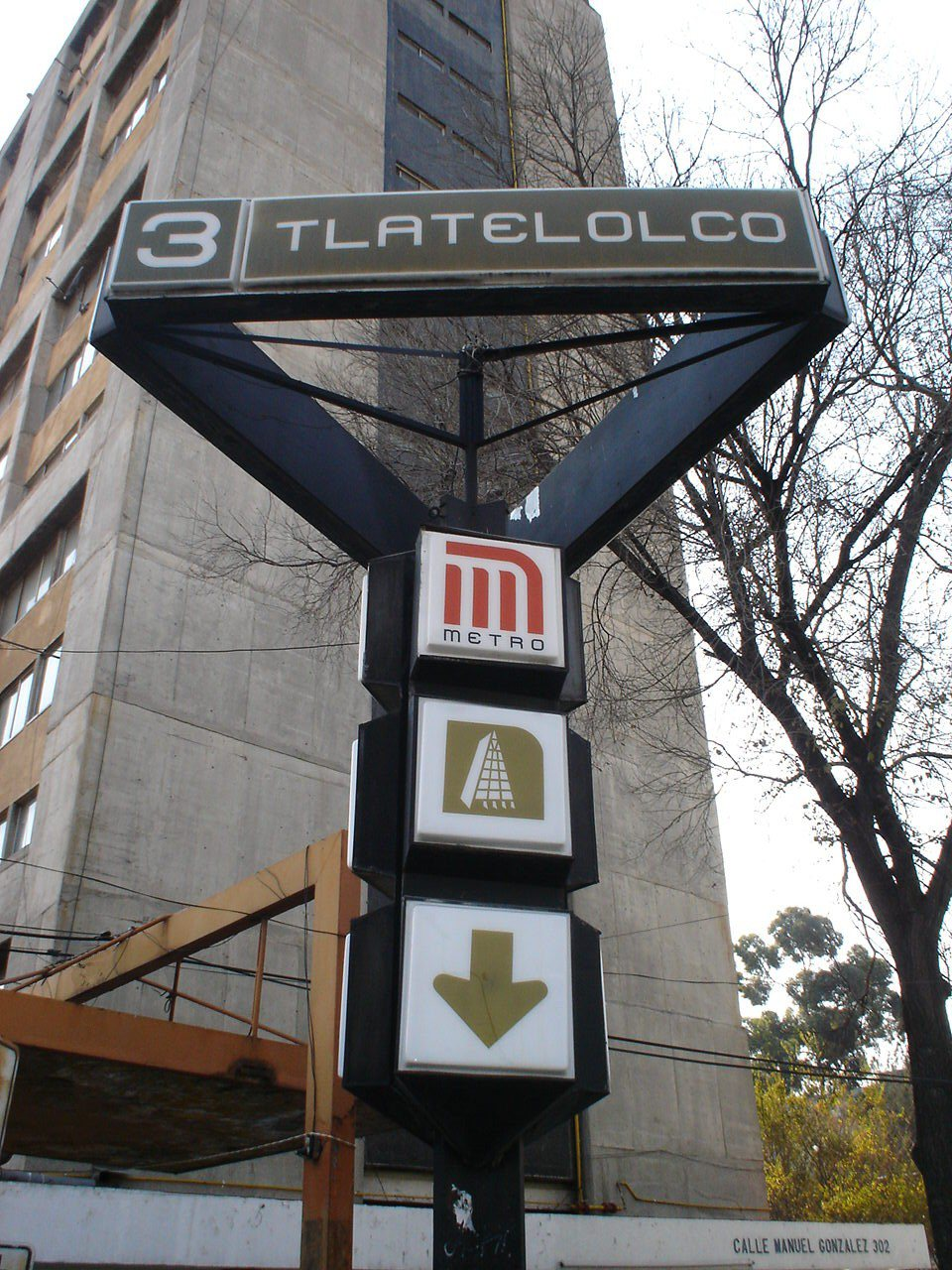 ESTACION TLATELOLCO